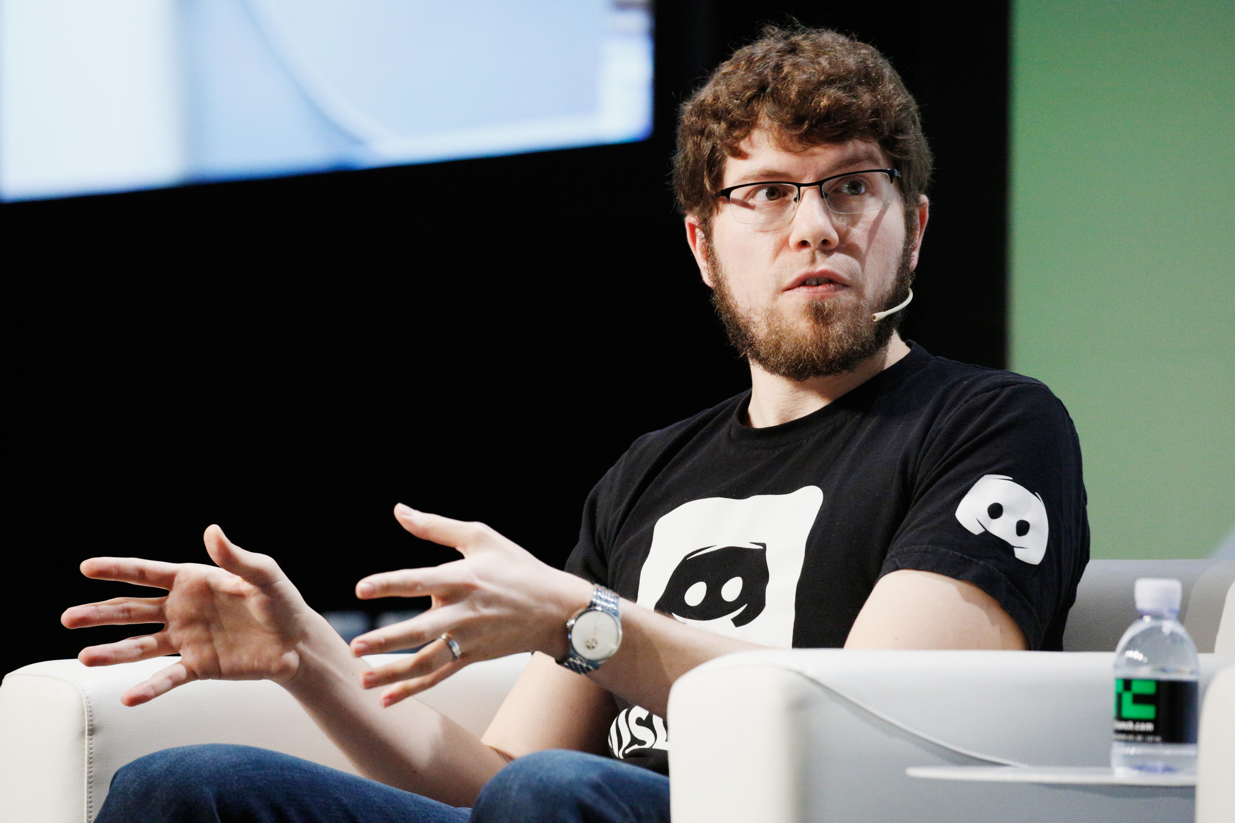 SAN FRANCISCO, CA - SEPTEMBER 06: Discord Co-Founder and CEO Jason Citron speaks onstage during Day 2 of TechCrunch Disrupt SF 2018 at Moscone Center on September 6, 2018 in San Francisco, California. (Photo by Kimberly White/Getty Images for TechCrunch)